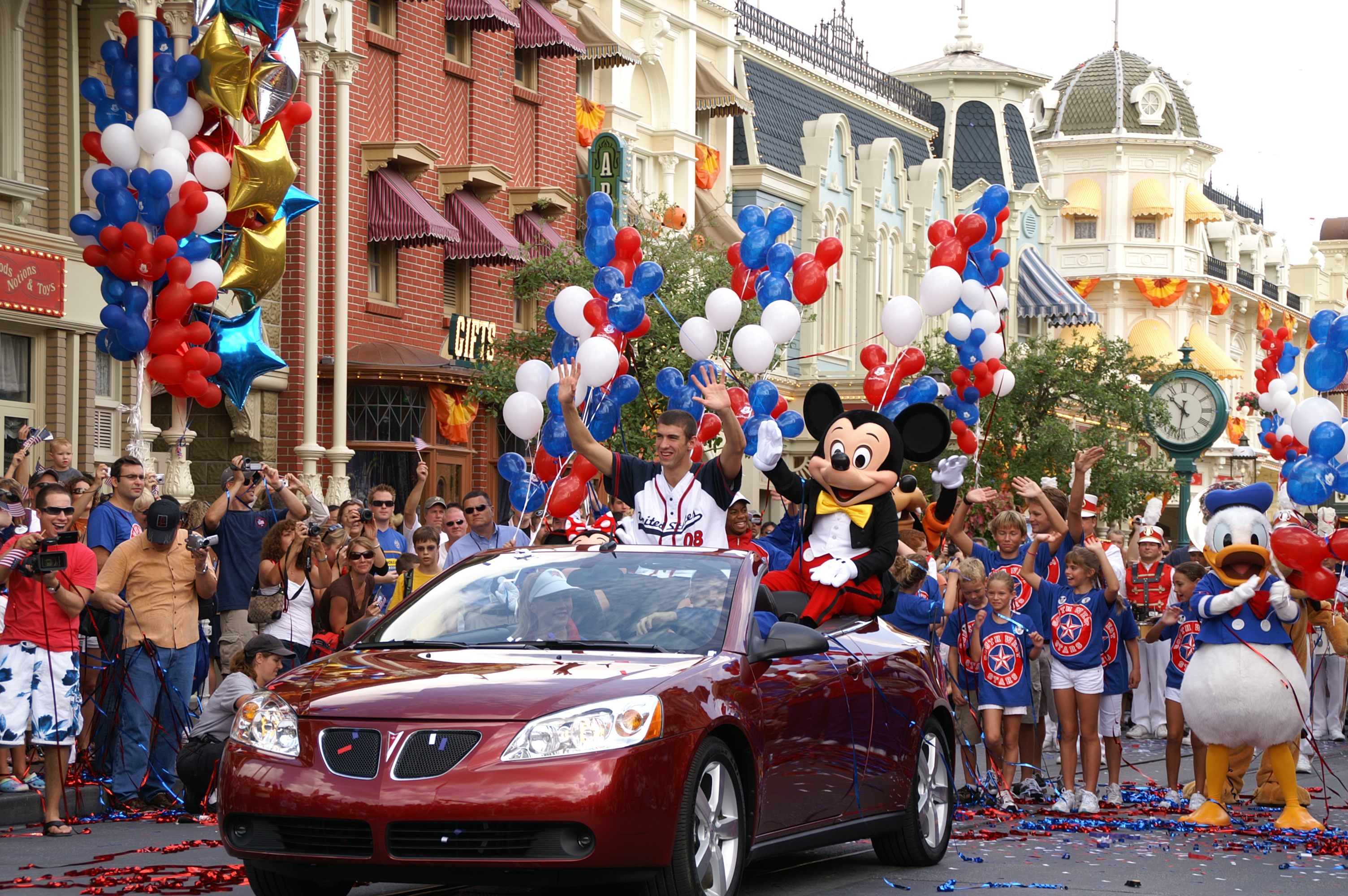 Michael Phelps at Disney